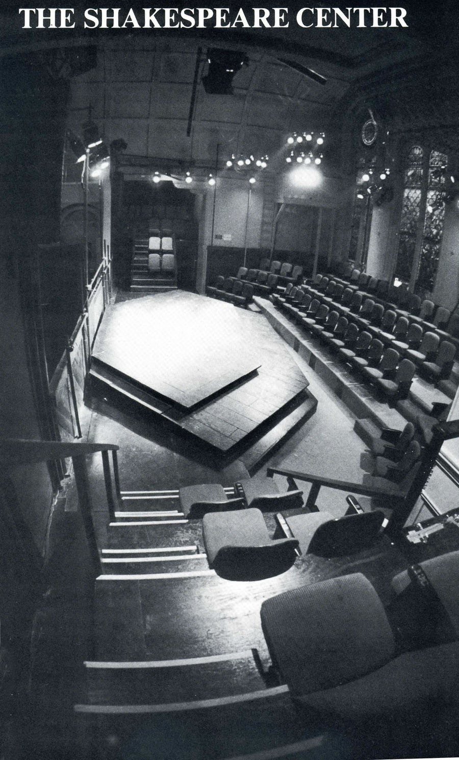 RIVERSIDE SHAKESPEARE COMPANY SHAKESPEARE CENTER, 1982, IN WEST-PARK PRESBYTERIAN CHURCH, WEST 86 STREET AND AMSTERDAM AVENUE, NEW YORK